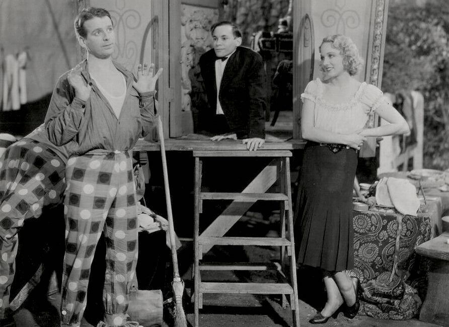 Wallace Ford, Johnny Eck, and Leila Hyams in publicity still for Freaks